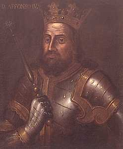 Portrait of king Afonso IV of Portugal.